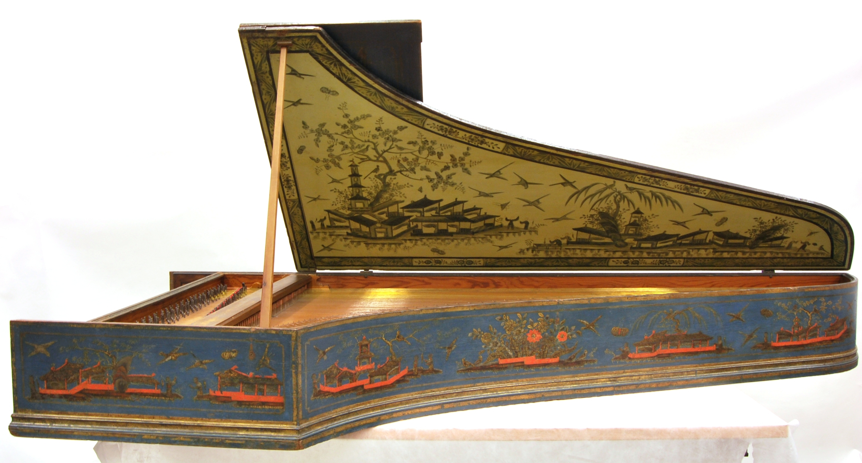 Harpsichord, Christian Zell, MDMB 418, Museu de la Música de Barcelona